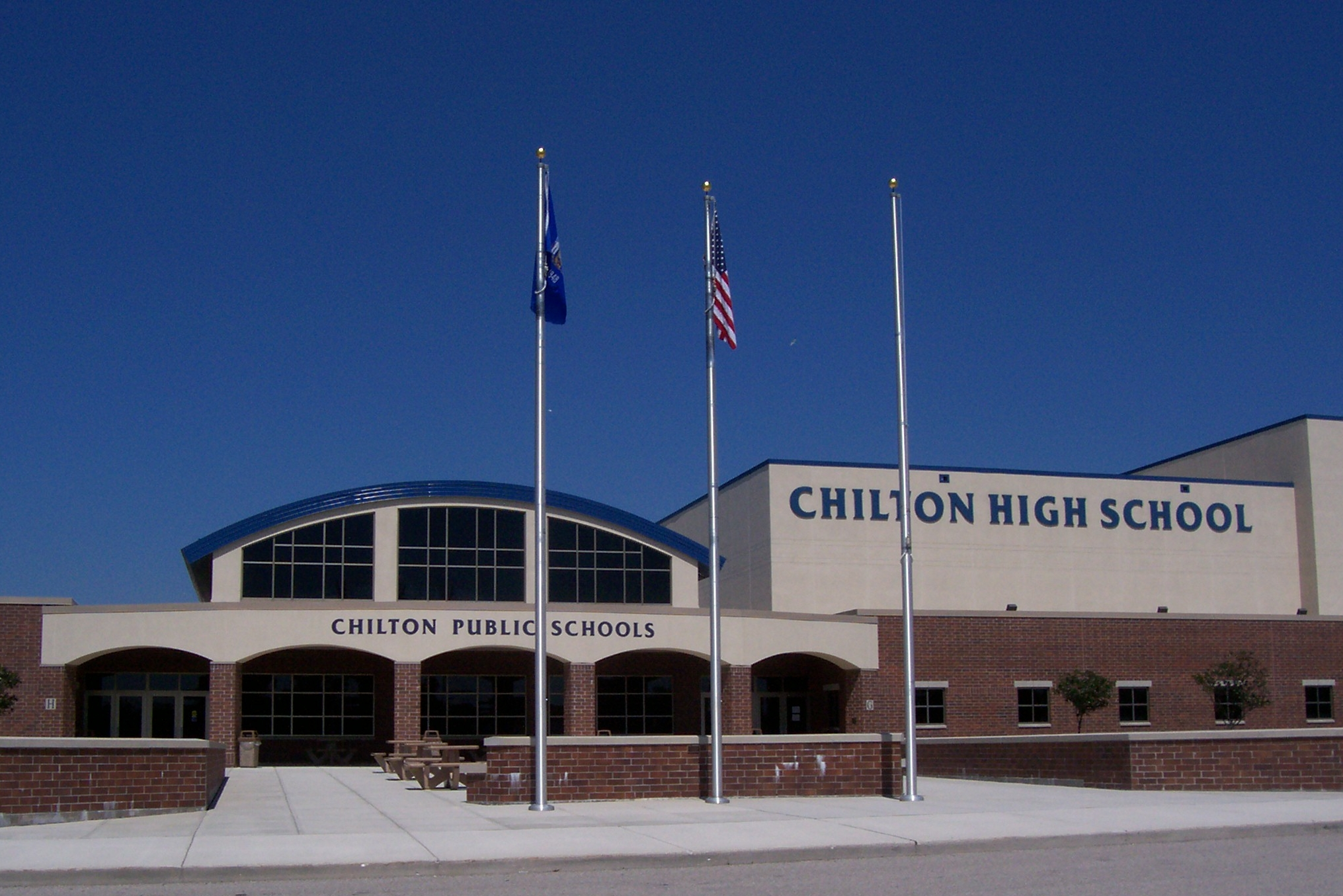 Looking north at Chilton High School in Chilton, Wisconsin(USA)